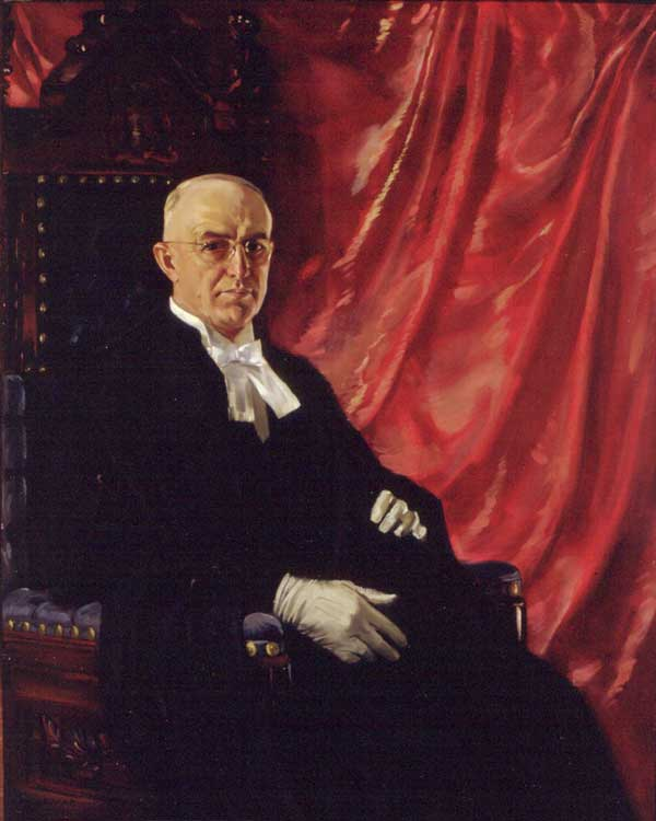 [Speaker of the Ontario Legislature, 1935-38]